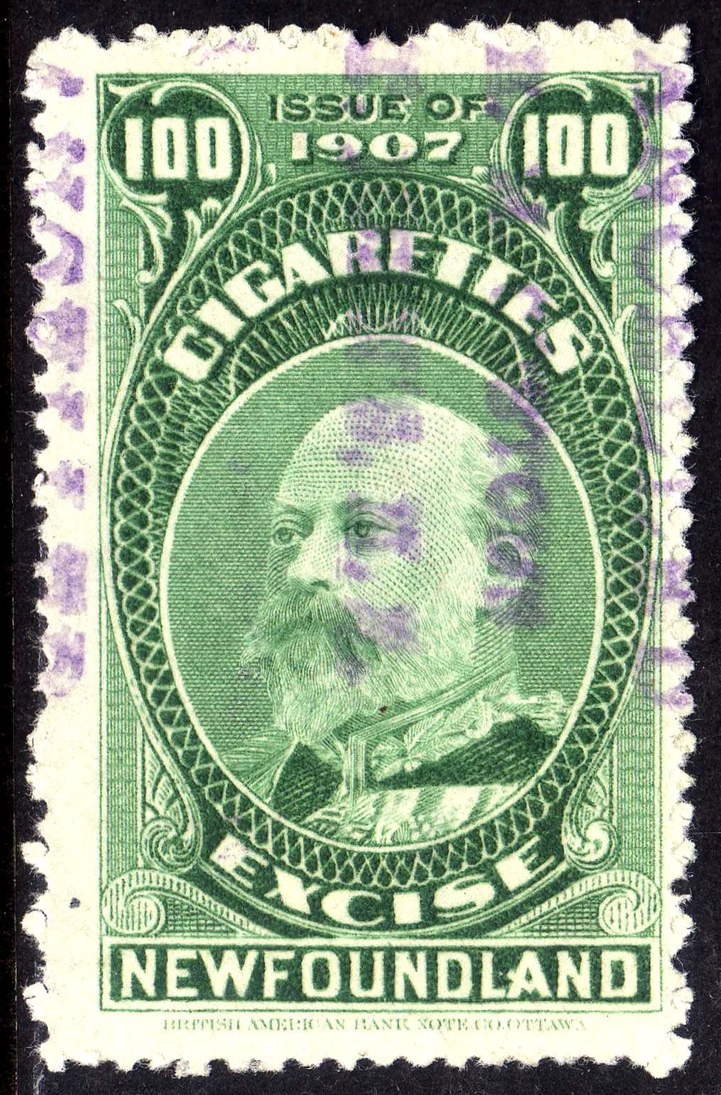 1907 Newfoundland cigarette tax revenue stamp.